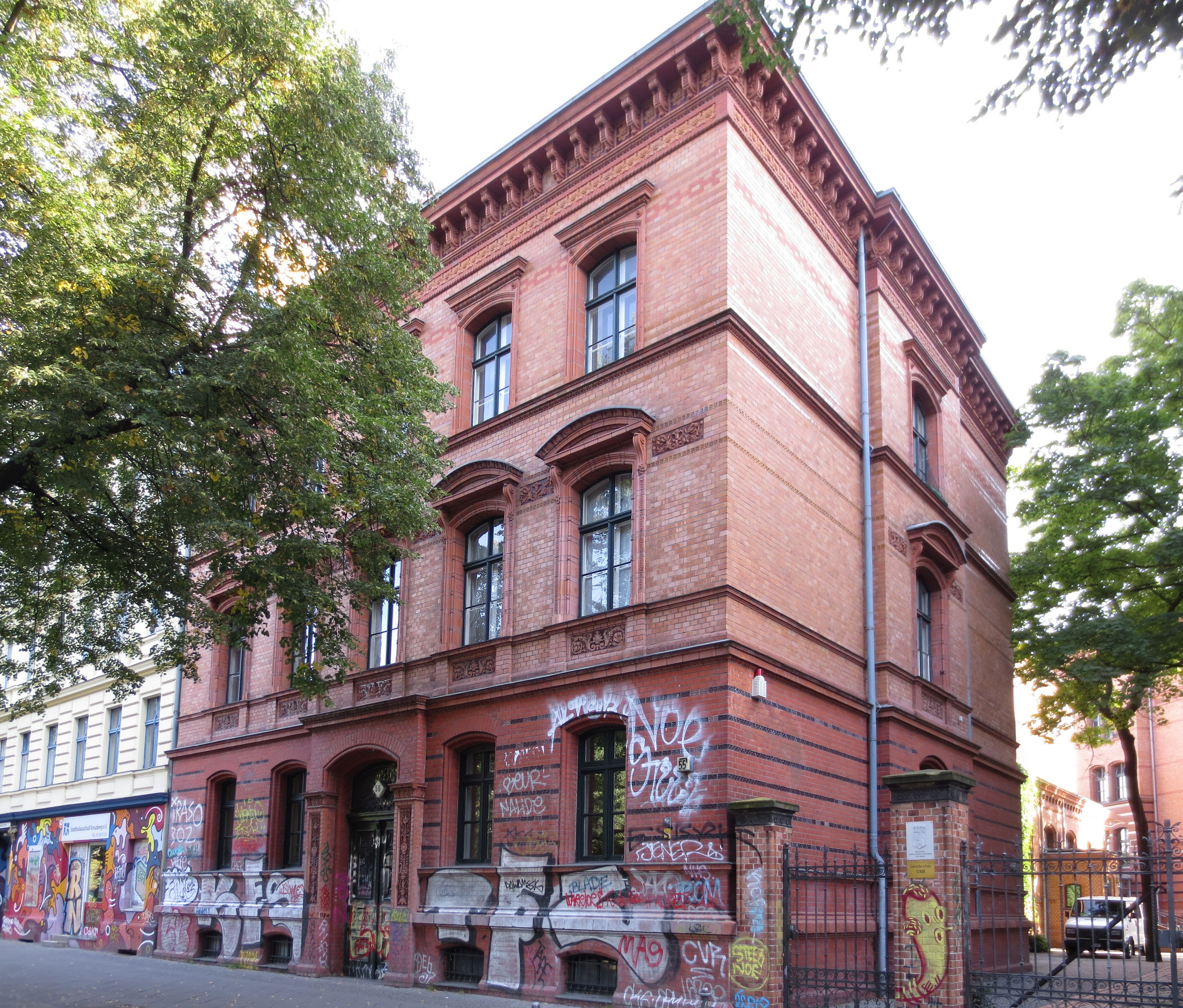 Teachers' residence of the former 115th and 237th Municipal School Berlin at Skalitzer Straße No. 55-56 in Berlin-Kreuzberg, now part of the complex of the Secondary School Skalitzer Straße. The building was constructed from 1886 to 1887 together with a gym and the classroom building in the rear part of the lot. The whole complex has been designated as a cultural heritage monument.